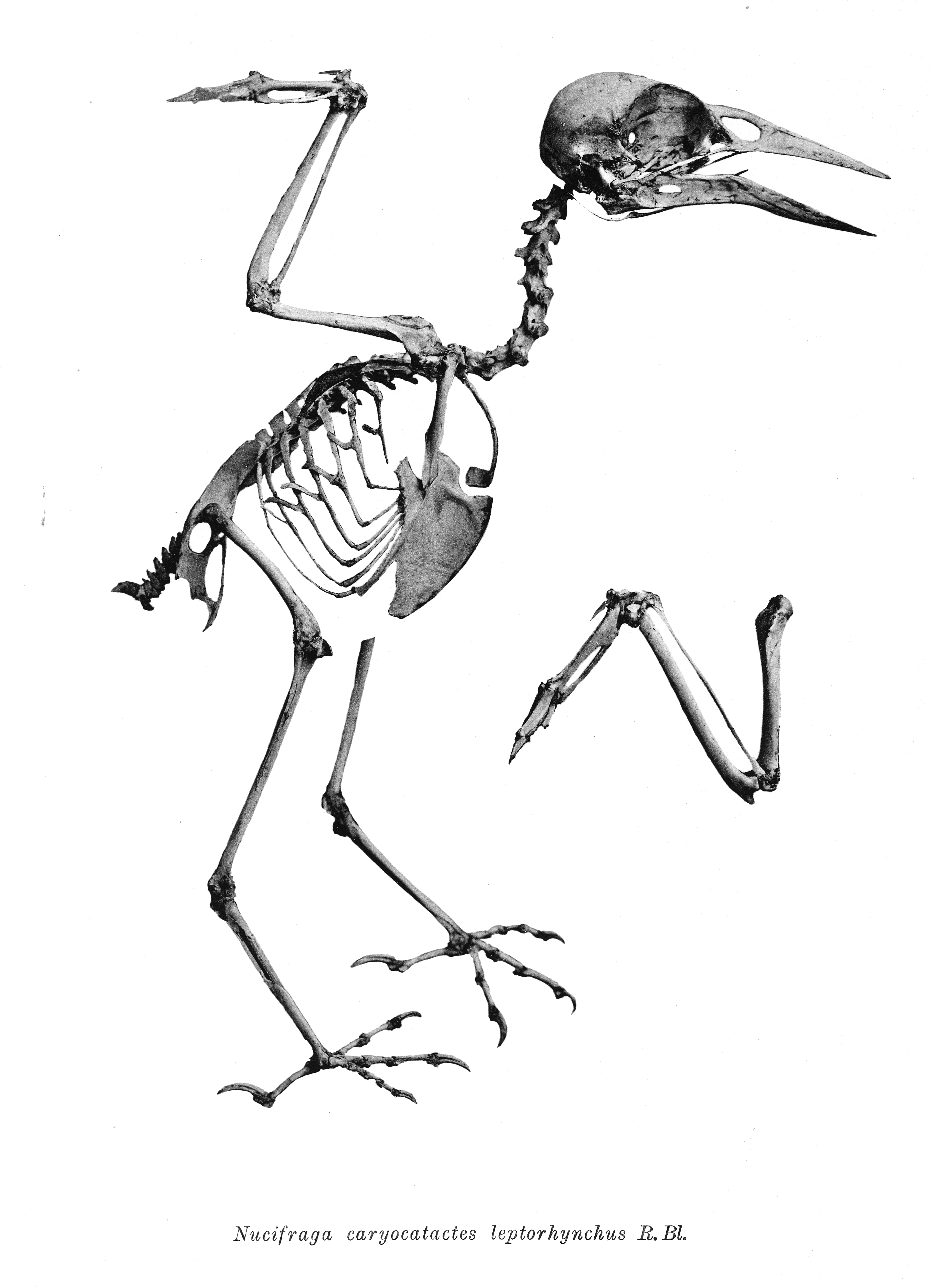 Nucifraga caryocatactes